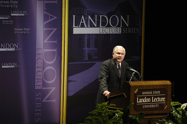 Defense Secretary Robert Gates speaking at the Landon Lecture Series at Kansas State University on November 26, 2007.